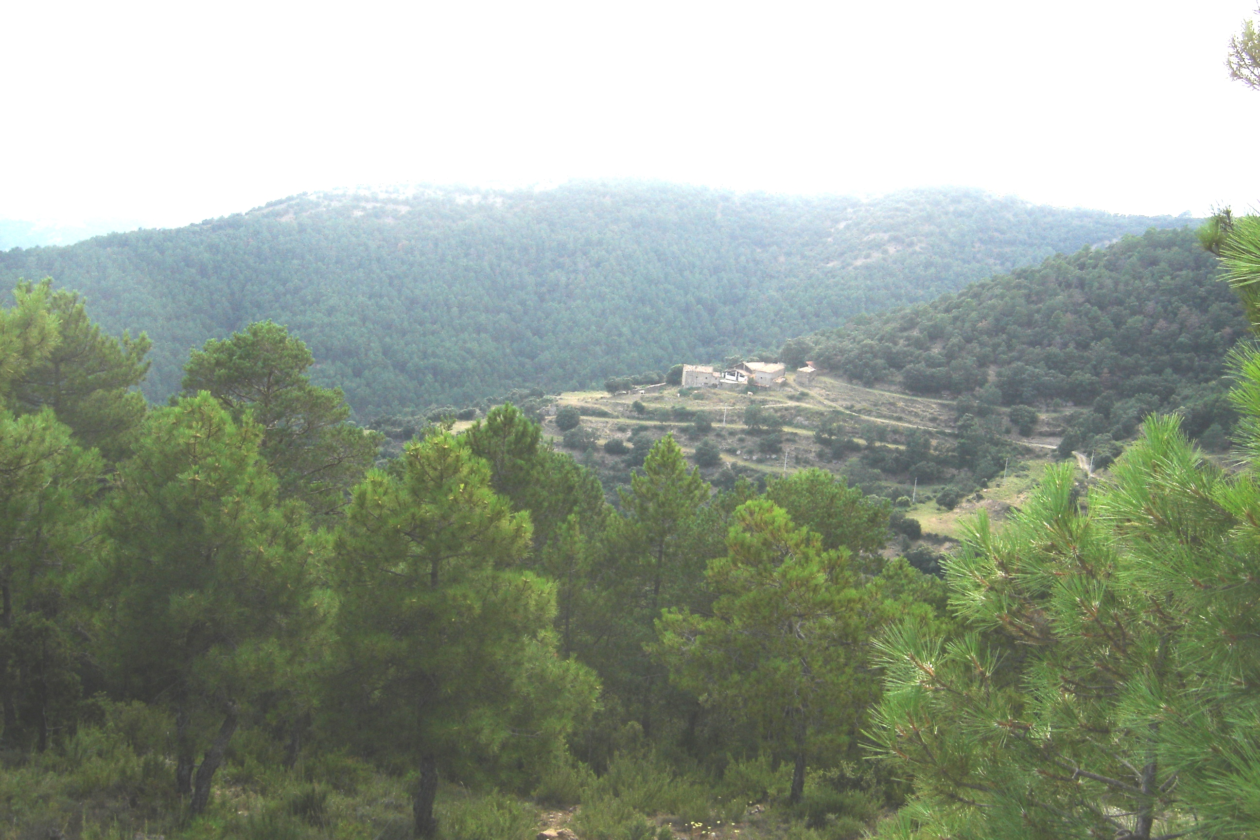 La masia de de Cogulers i al seu darrere el vessant oest de la rasa de Cogulers.